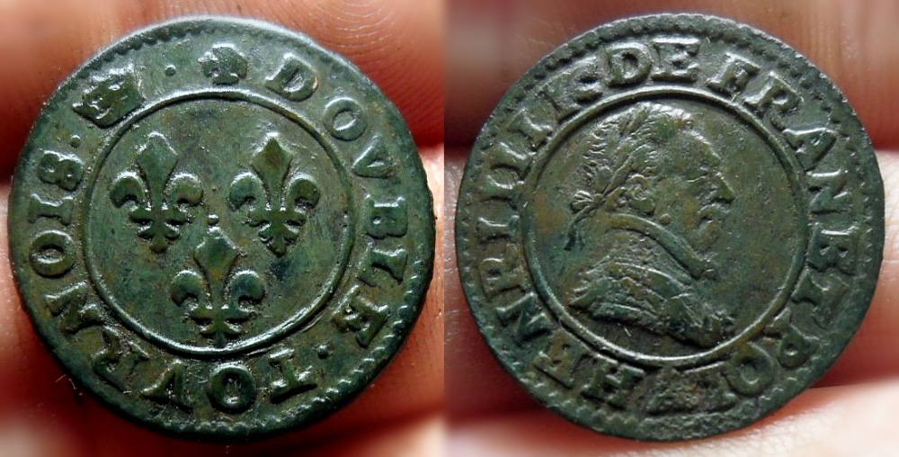 Double Tournois Henri III. Private Collection.